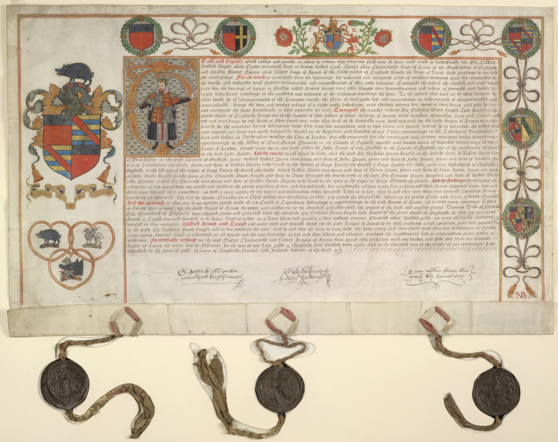 Grant of arms (Whole document) Grant of Arms to Sir Nicholas Bacon, with signatures and seals of Sir Gilbert Dethick, Garter; Robert Cooke, Clarenceaux; and William Flower, Norroy, Kings of Arms. Illuminated initial 'T' with portrait of a King of arms [Dethick?] in crown and tabard. Coats of arms in the borders. 27 February 1569